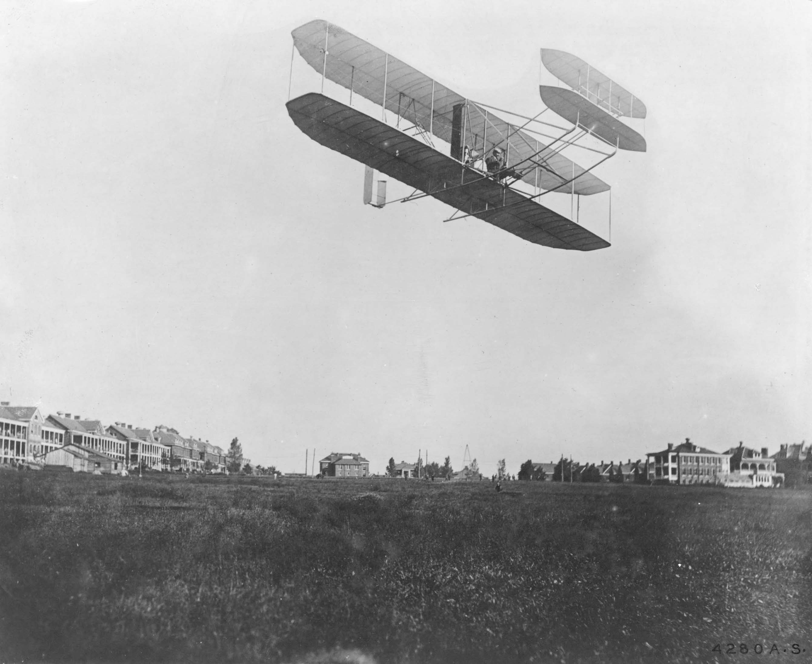 Orville Wright flying the Wright Model A in Fort Myer, VA